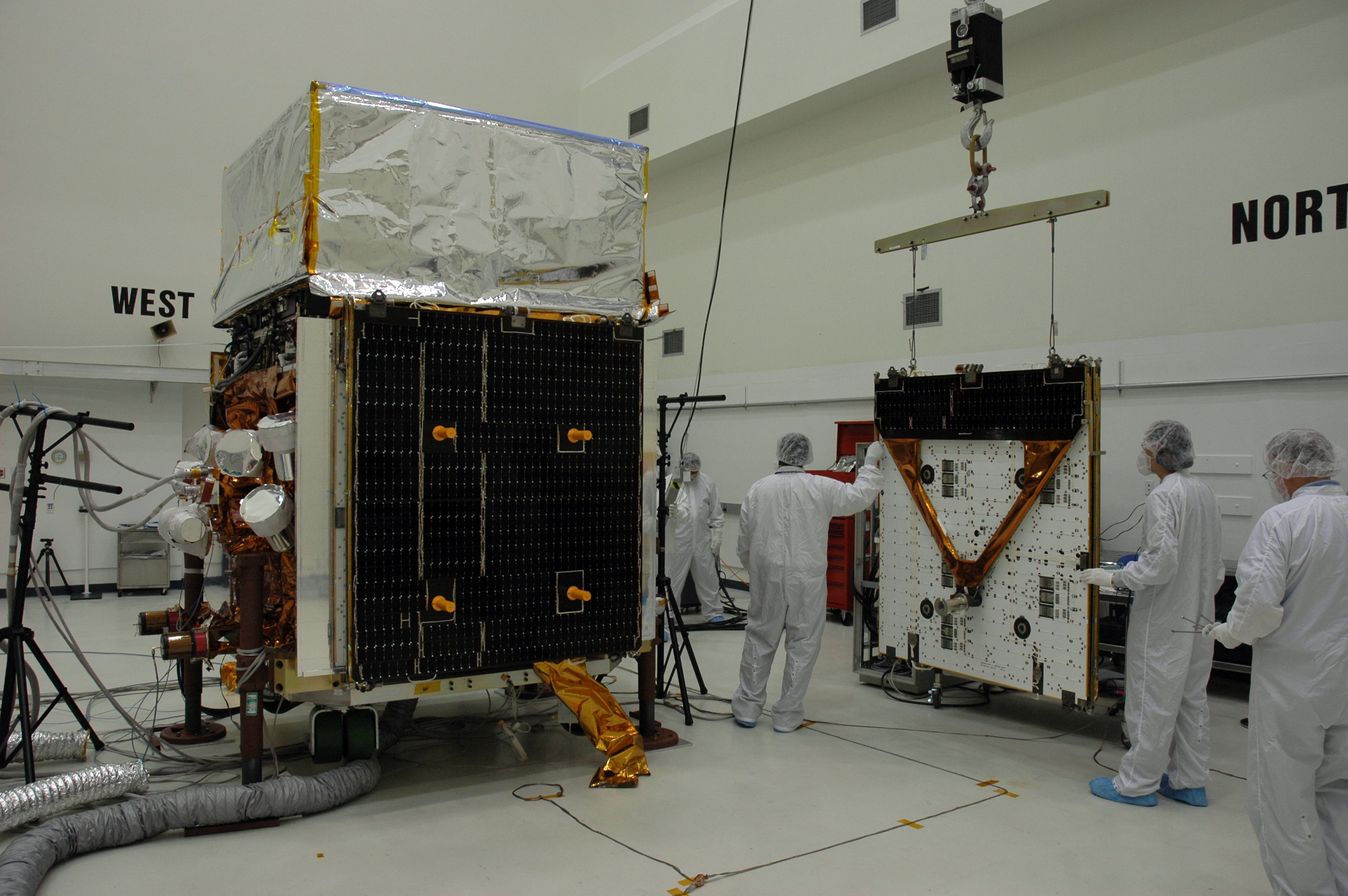 Second solar array before attachment to the GLAST satellite.